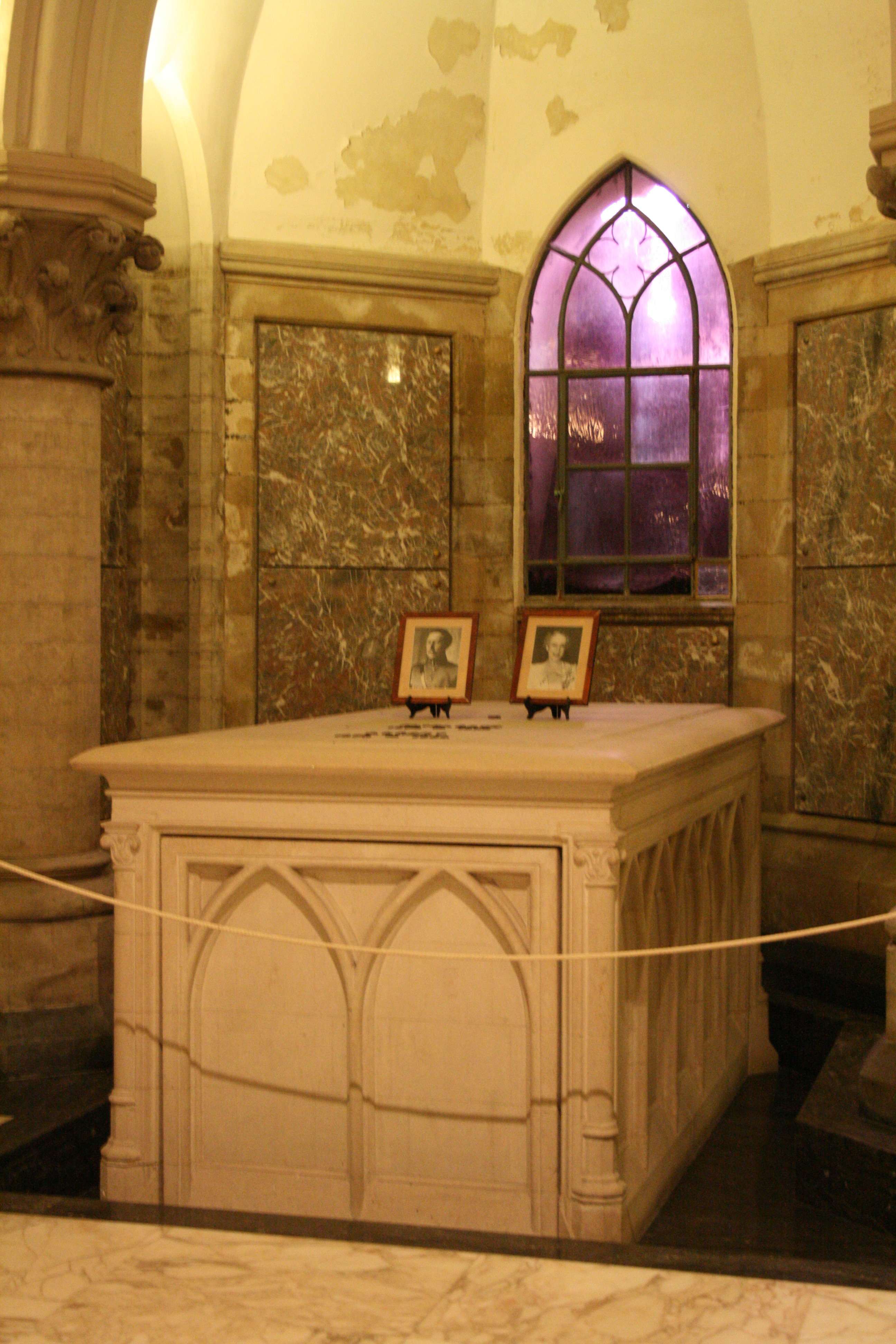 Royal Crypt in the church Notre-Dame at Laeken (Brussels), Belgium. Burial place of the Belgian sovereigns, their wives and some members of the Belgian royal family.